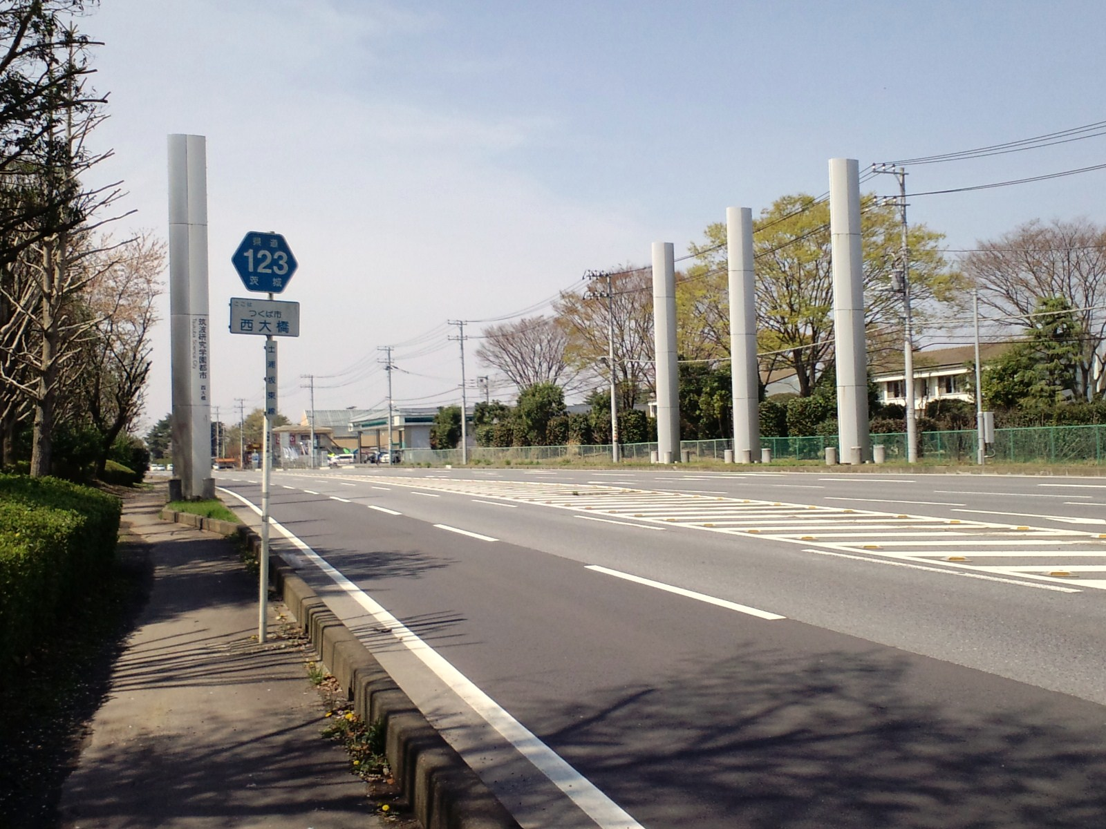 Ibaraki prefectural road 123(Tsuchiura-Bandō line) in Nishiōhashi, Tsukuba city, Ibaraki prefecture, Japan.